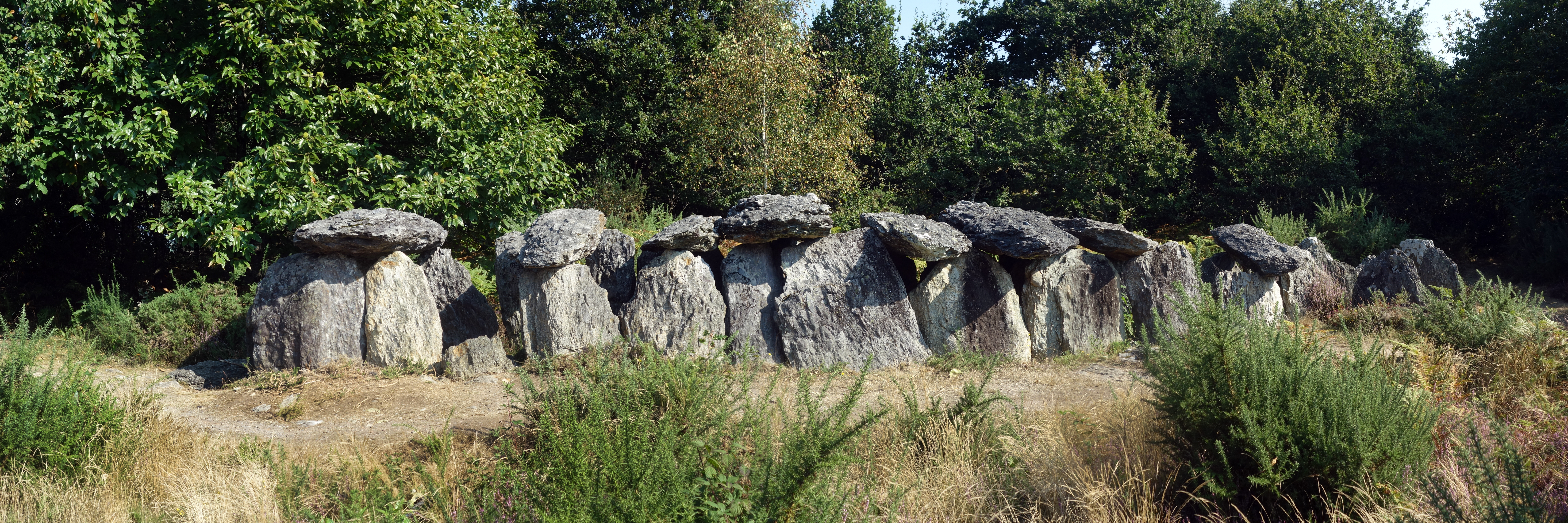 This is a really impressive covered walkway because it is as complete as it was originally, which is rare! Even if the effect of restoration is important, we can see here clearly what our ancestors thought when they erected this monument... We are therefore dealing with a "classic" covered walkway with side entrance: it is 15,50 meters long and 1,20 m wide on average.